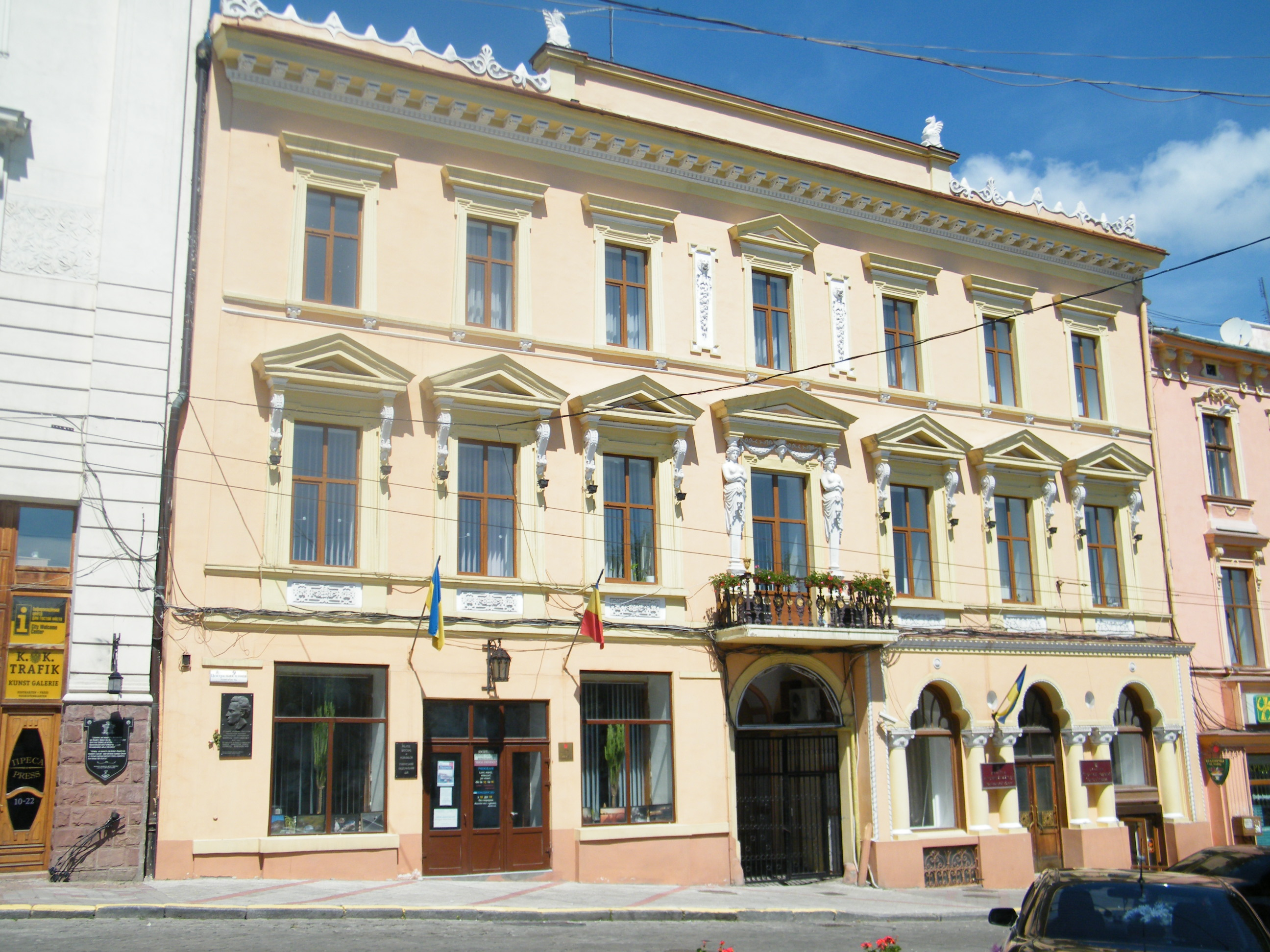 Romanian National House, Chernivtsi